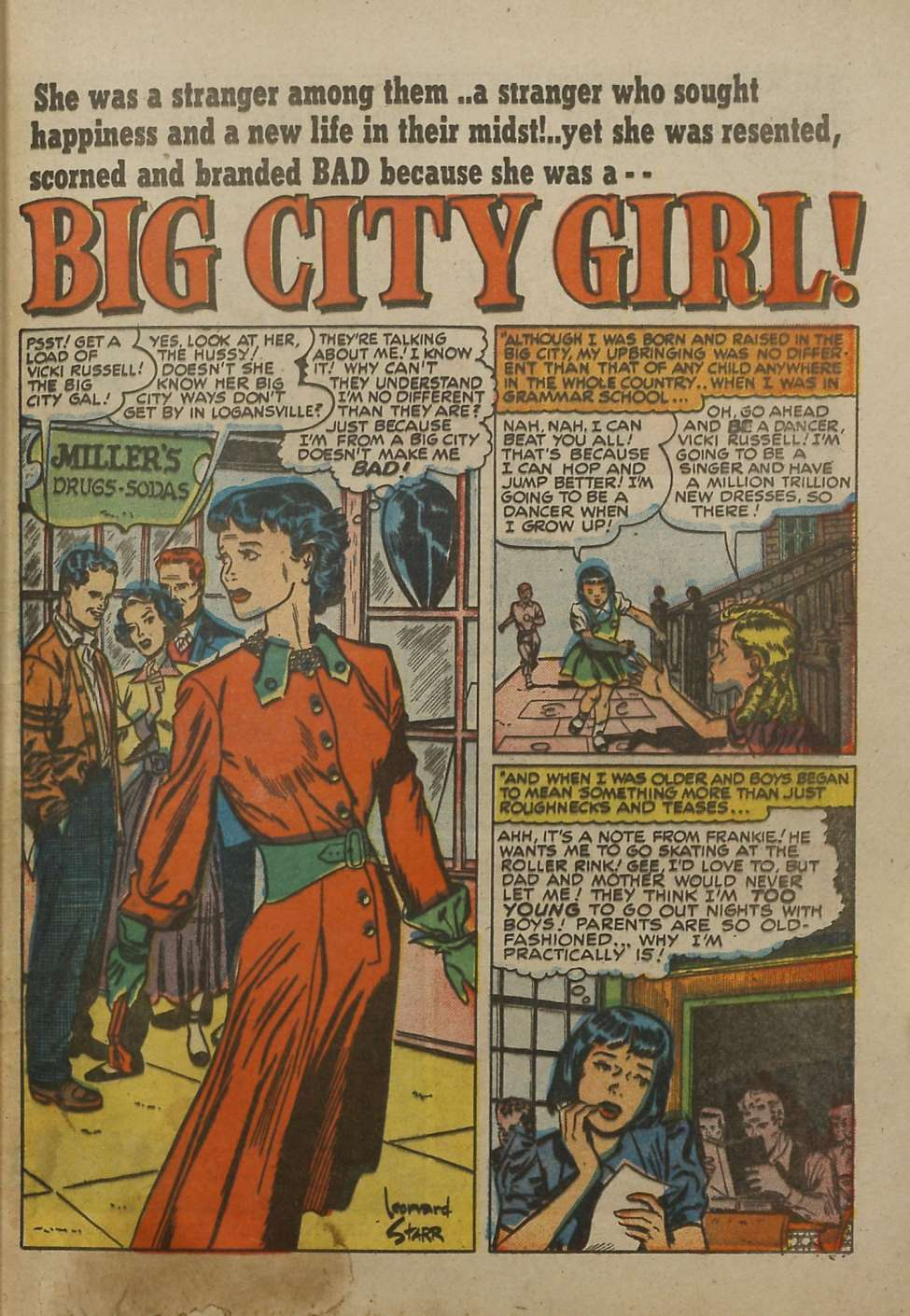 page from Young Romance 11 (May/June 1949 Crestwood Publications) featuring Big City Girl!, art by Leonard Starr (signed)